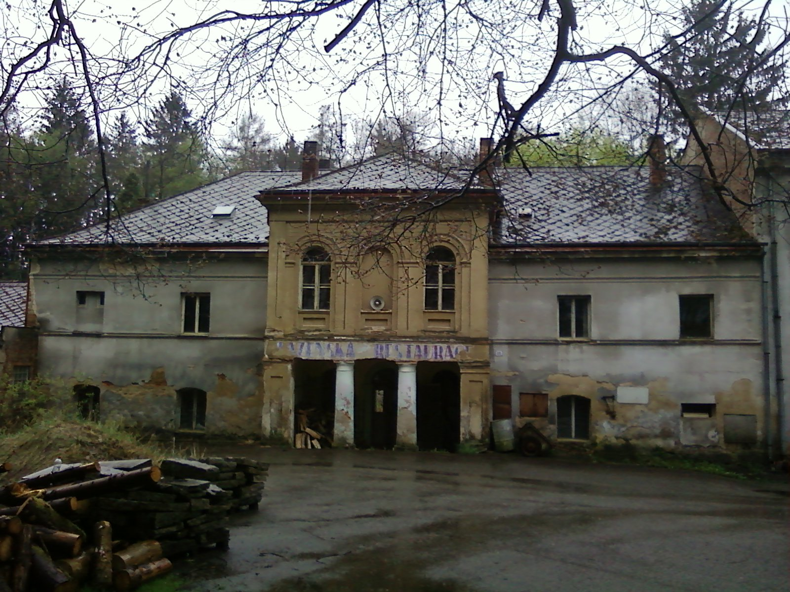 stav na začátku května 2013